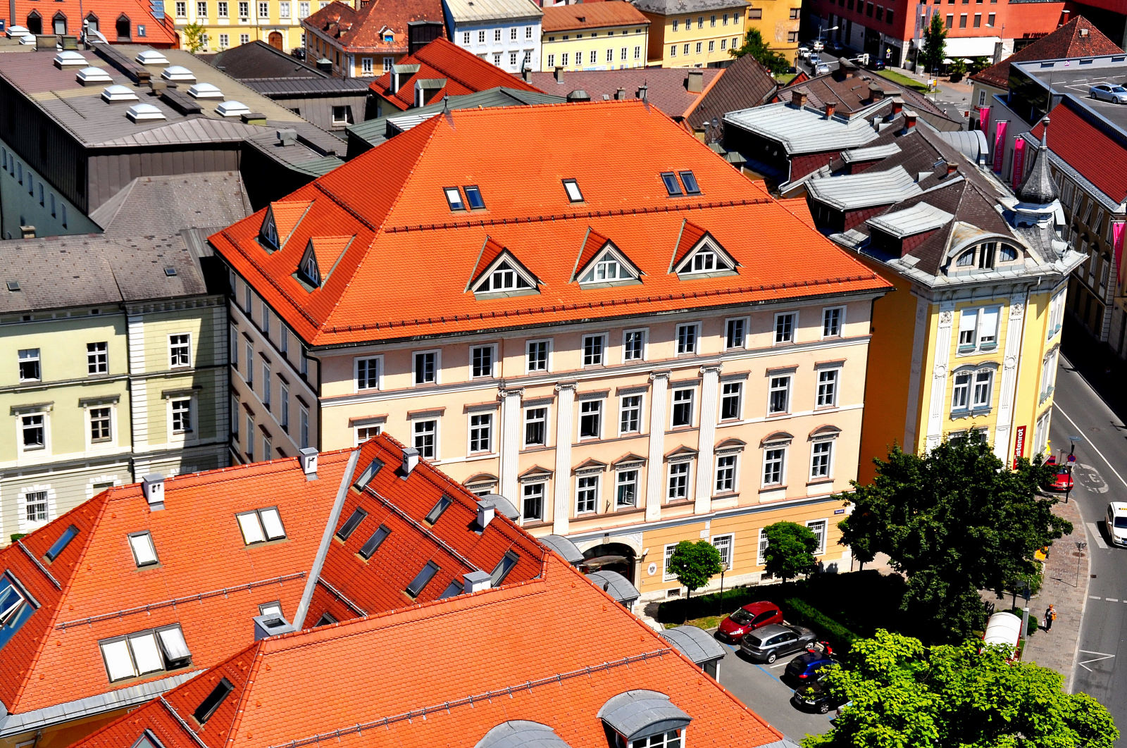 Building in empire architecture on the Heuplatz #3, inner city of Klagenfurt, Carinthia, Austria, EU